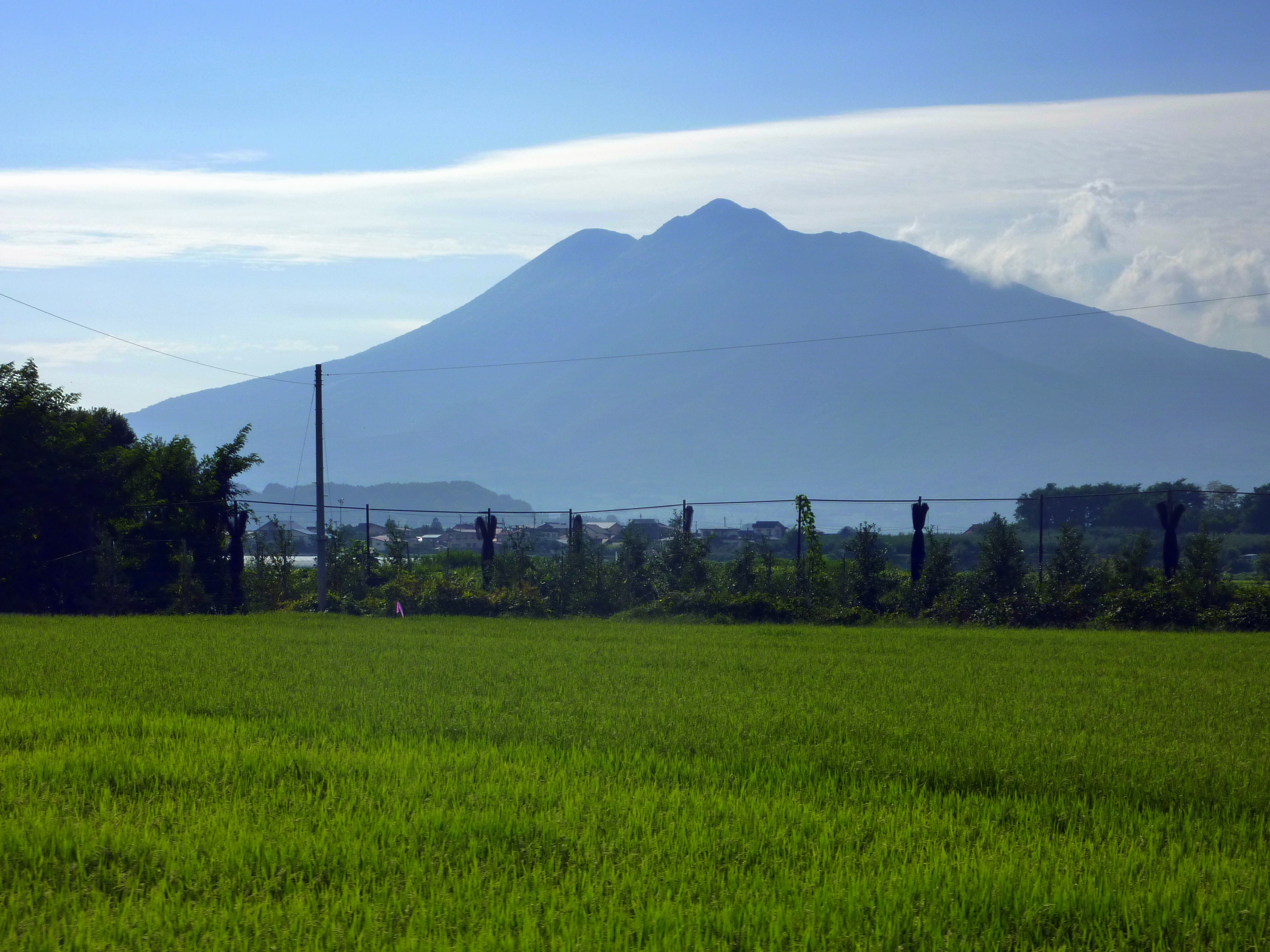 Iwaki-san from Tsugaru-shi